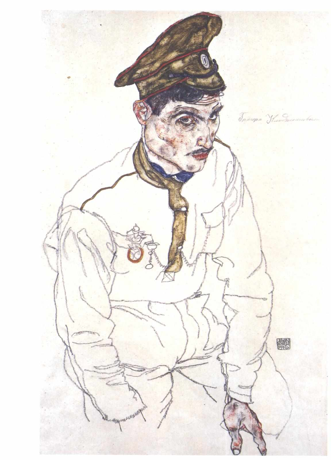 Russian prisoner of war - Grigori Kladjischuili